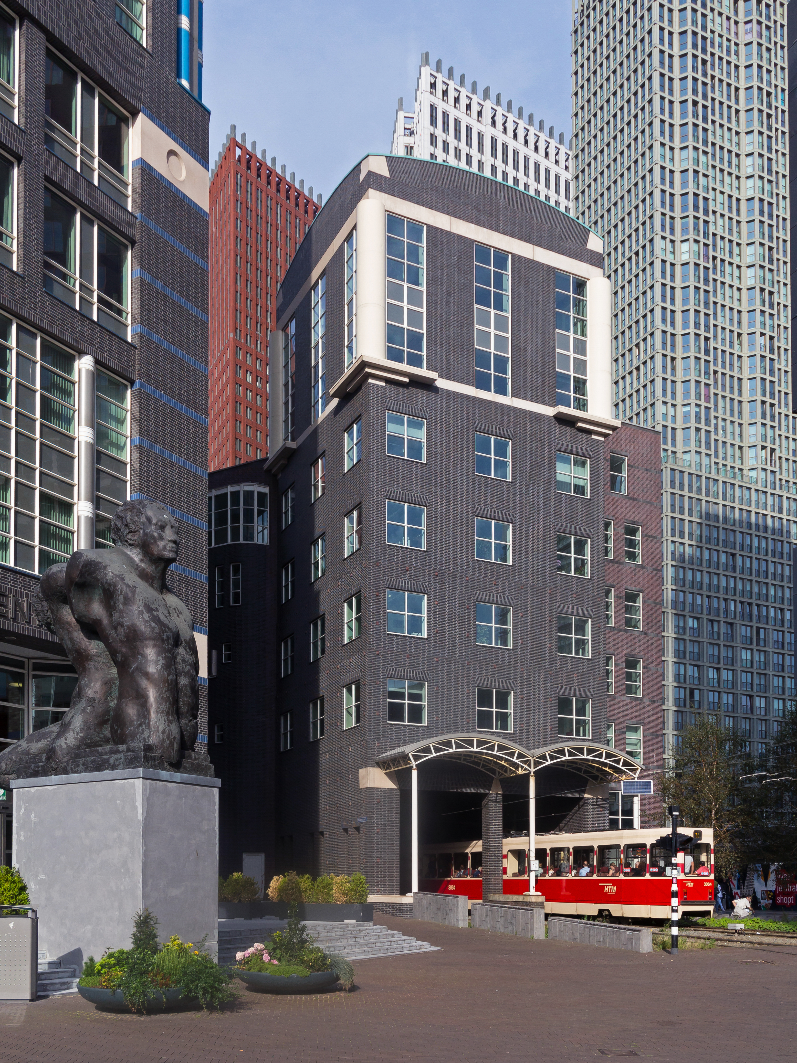 Den Haag, office tower (de Muzentoren) to the right and tram